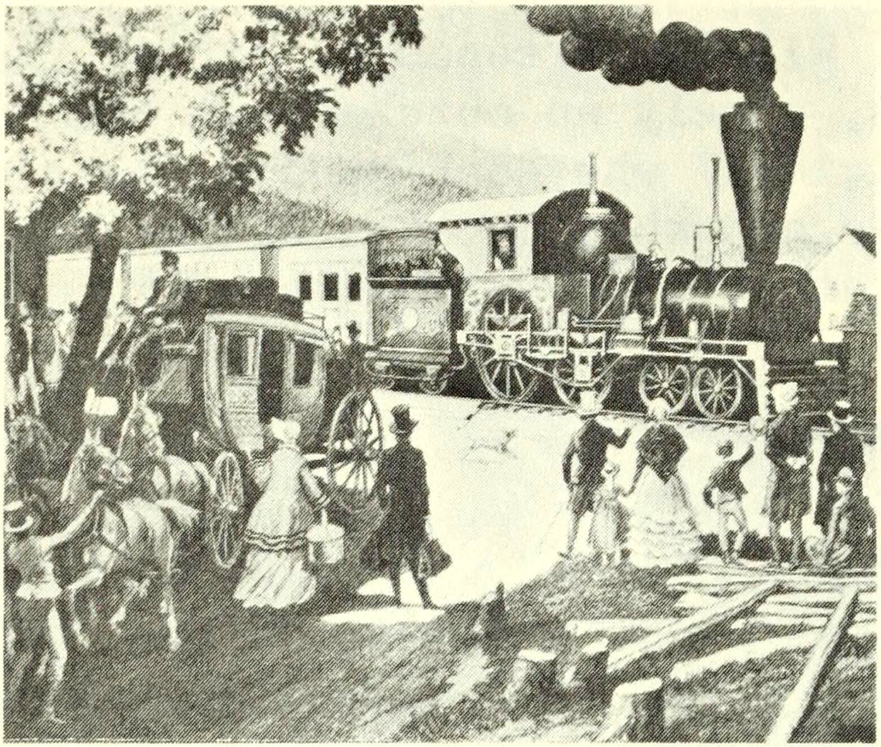 A train and stagecoach meeting at West Newton, likely made soon after the railroad opened to West Newton in April 1834